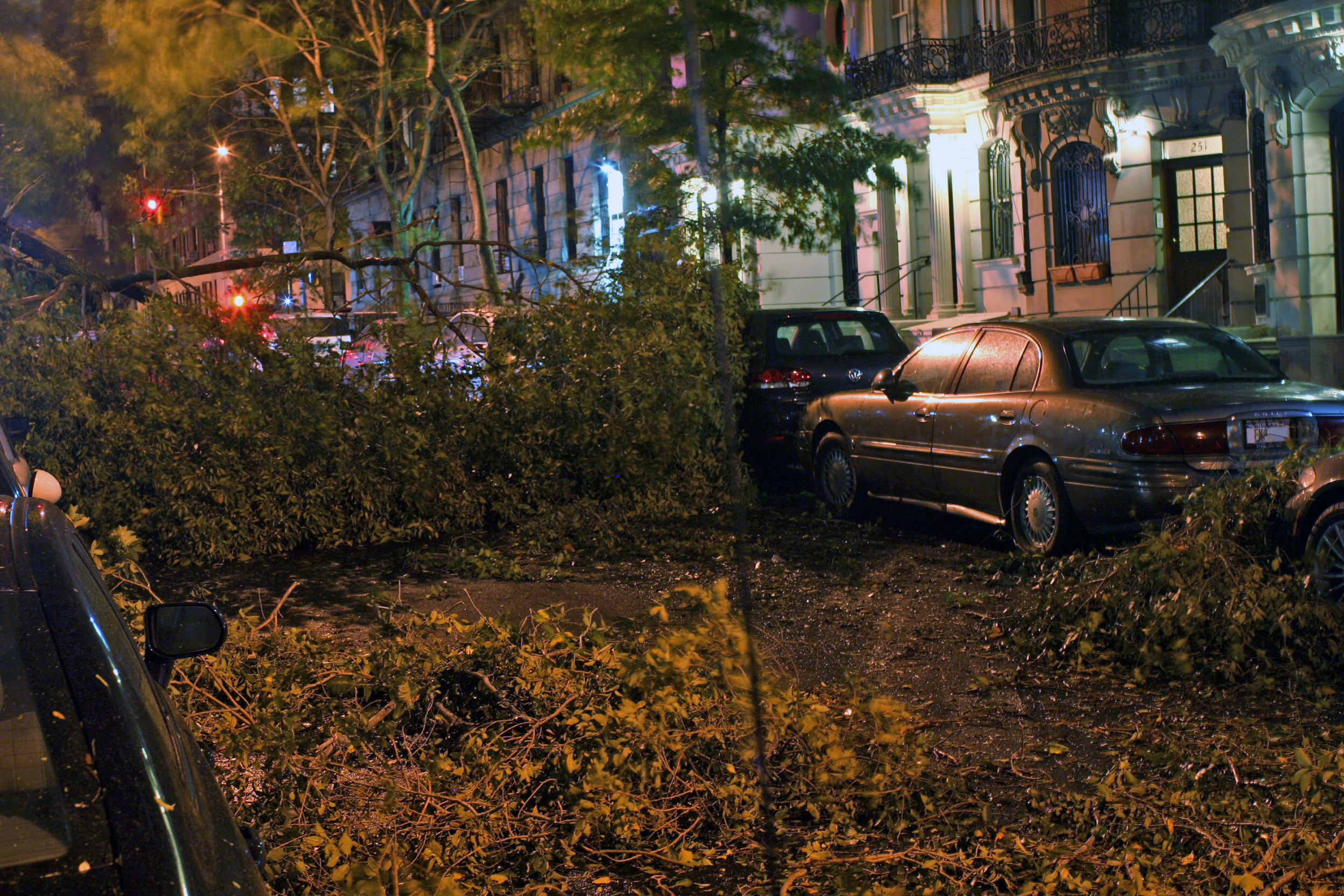 Damage due to Hurricane Sandy on NY's upper west side (101 street, between West End and Broadway)